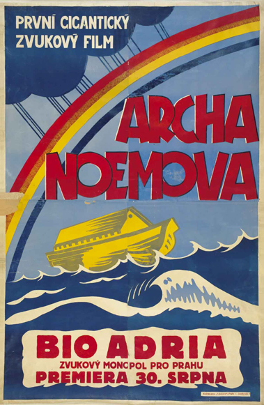 Czech movie poster to American movie Noah's Ark (1928) Česky: český plakát k americkému filmu Archa Noemova (1928)